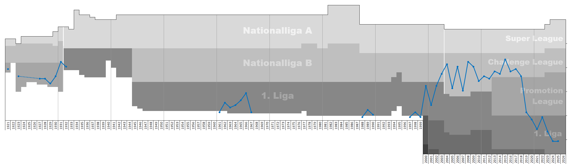 Chart of end-season table positions for FC Wohlen in the Swiss football league system. Data source: RSSSF